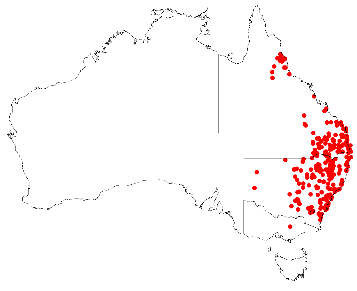 Australian distribution of Amyema cambagei based on download from Australasian Virtual Herbarium May 9, 2018